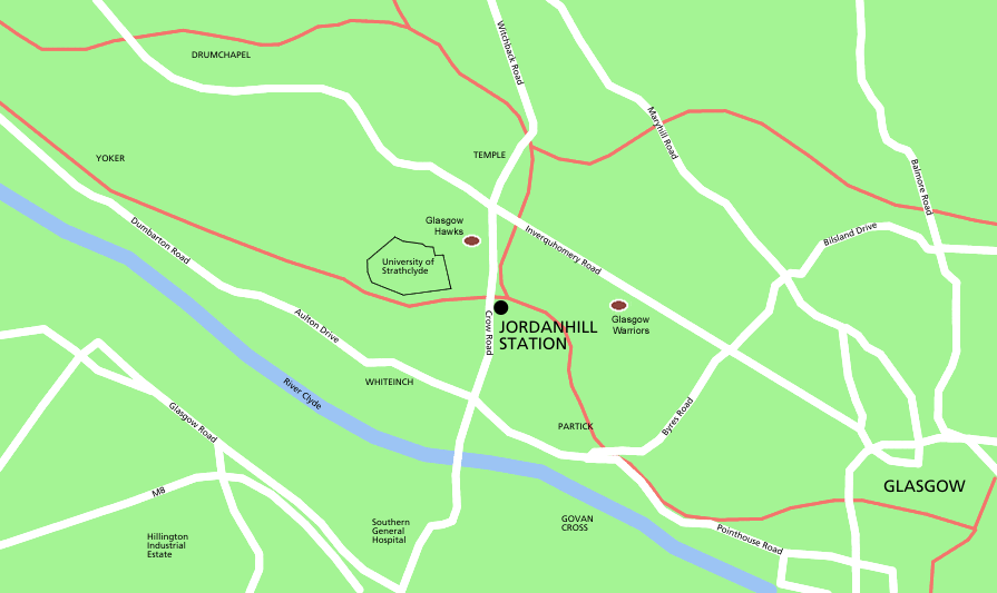 Location of Jordanhill railway station in Glasgow. Red = railway lines